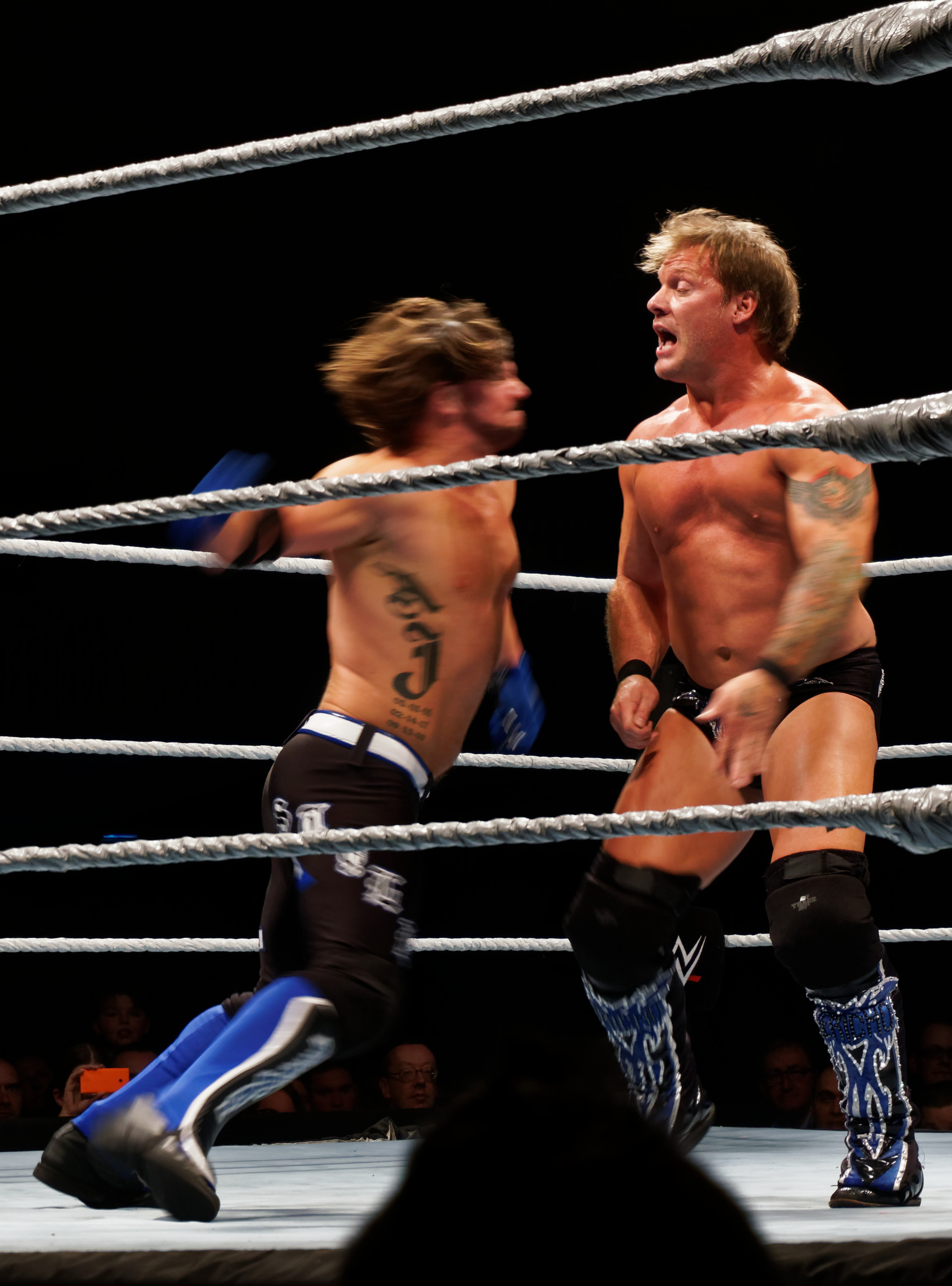 WWE Live WrestleMania Revenge AJ Styles def. Chris Jericho